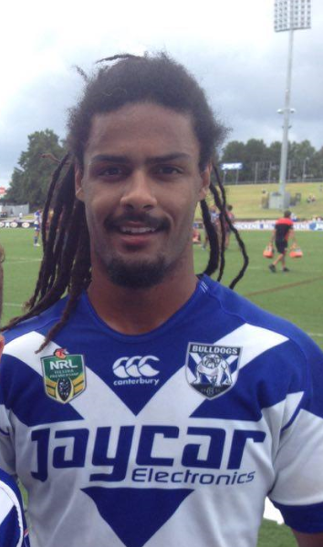 Jayden Okunbor at Belmore Sports Ground playing for the Bulldogs in a trial match against the Melbourne Storm in Feburary, 2016.